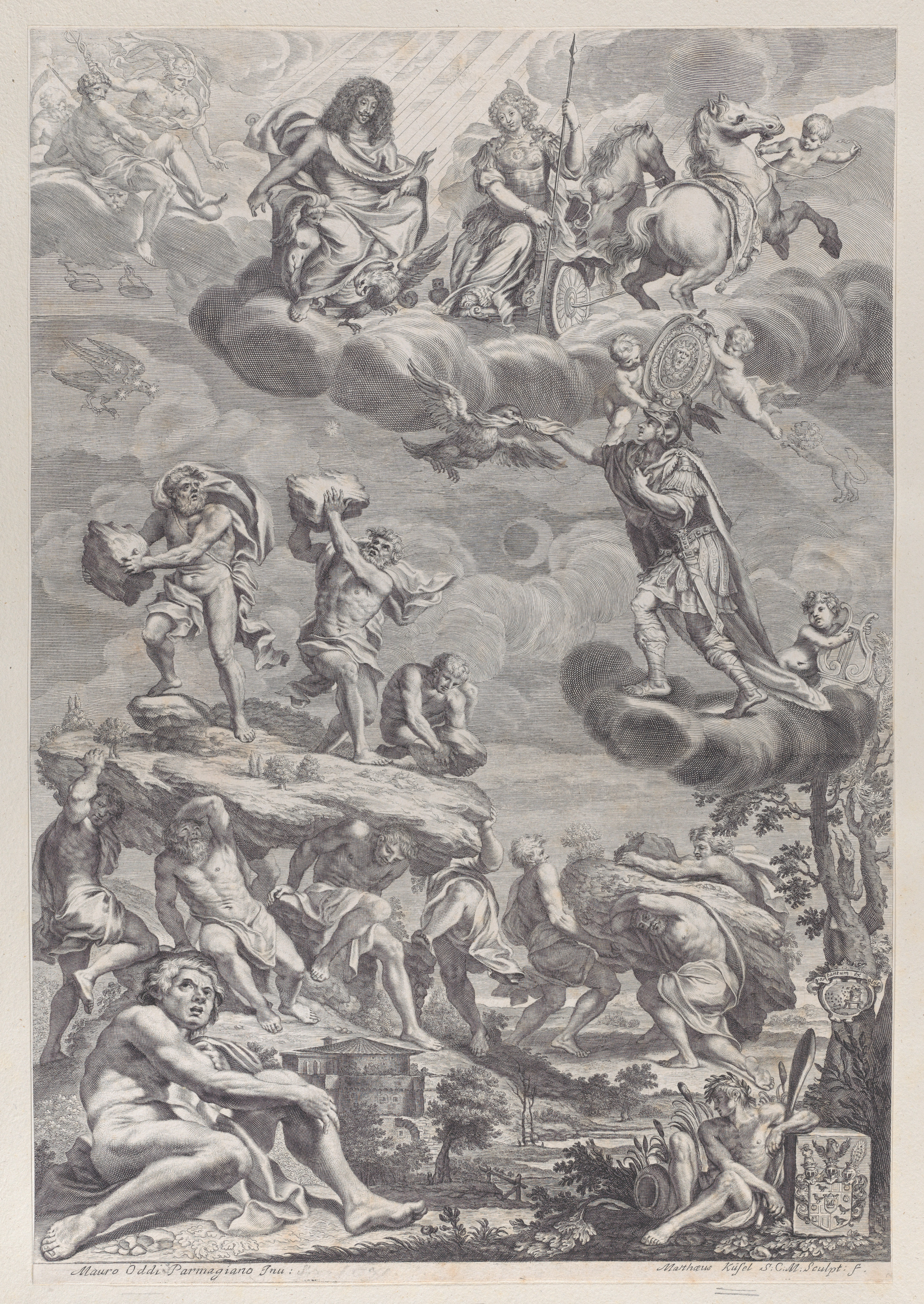 El emperador Leopoldo I como Júpiter y su esposa en trono de nubes observando la derrota de los gigantes. Grabado firmado: "Mauro Oddi Parmagiano Inv. // Matthaus Küsel SCM Sculpt. F." Metropolitan Museum.